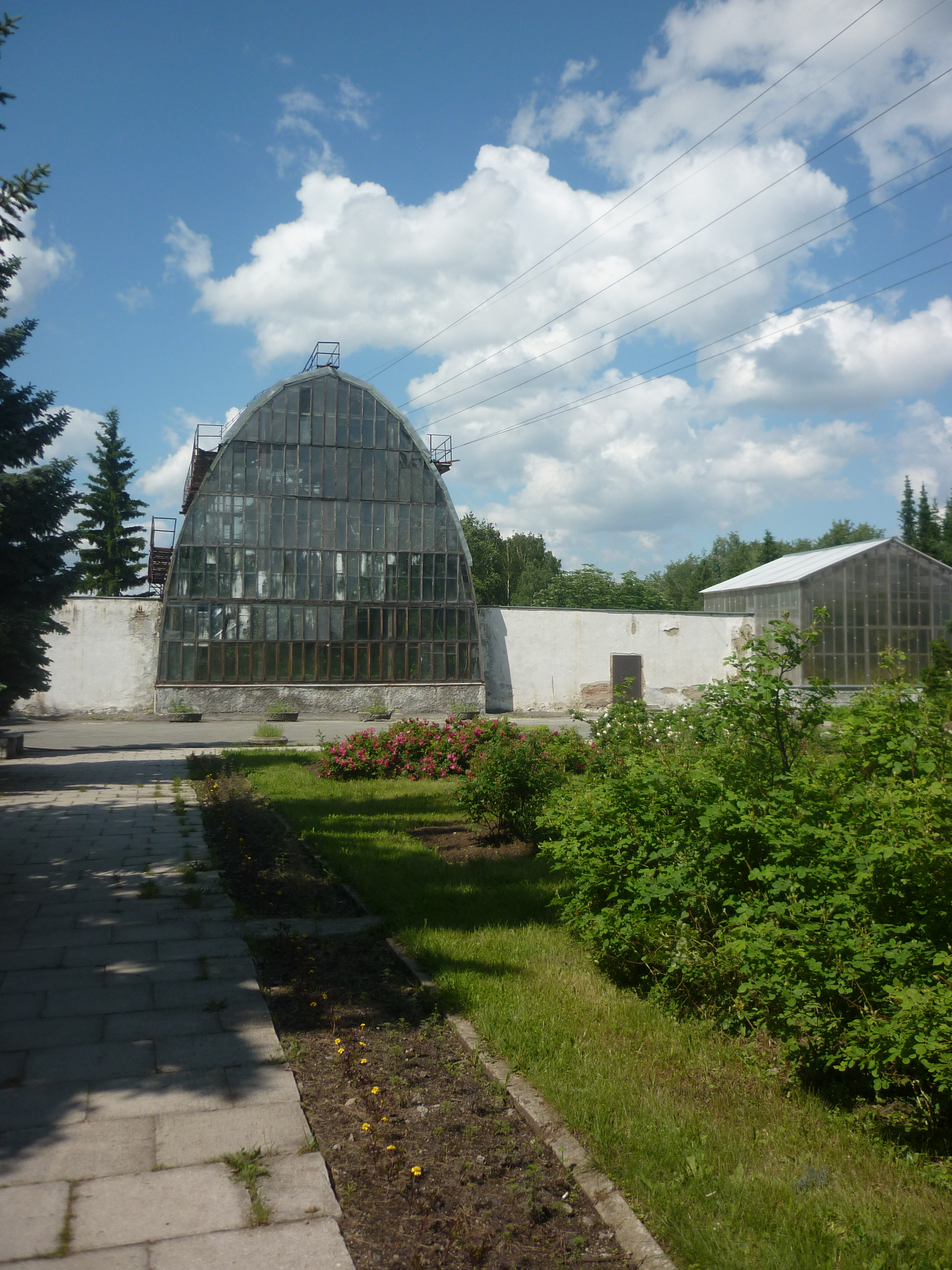 a greenhouse at Yekaterinburg's botanical garden 2